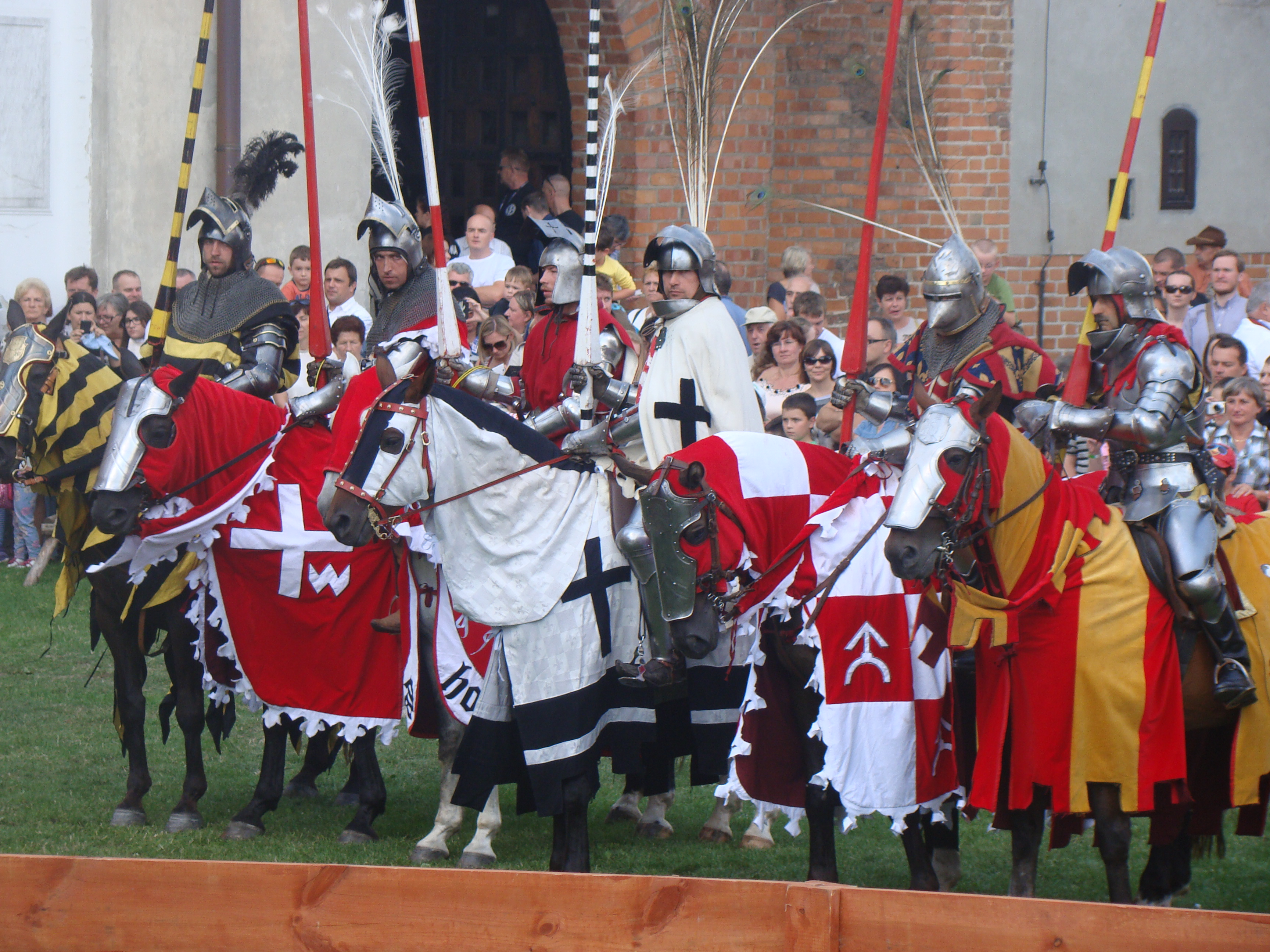 XVI Knights' Tournament in Łęczyca (23-24 August 2014)